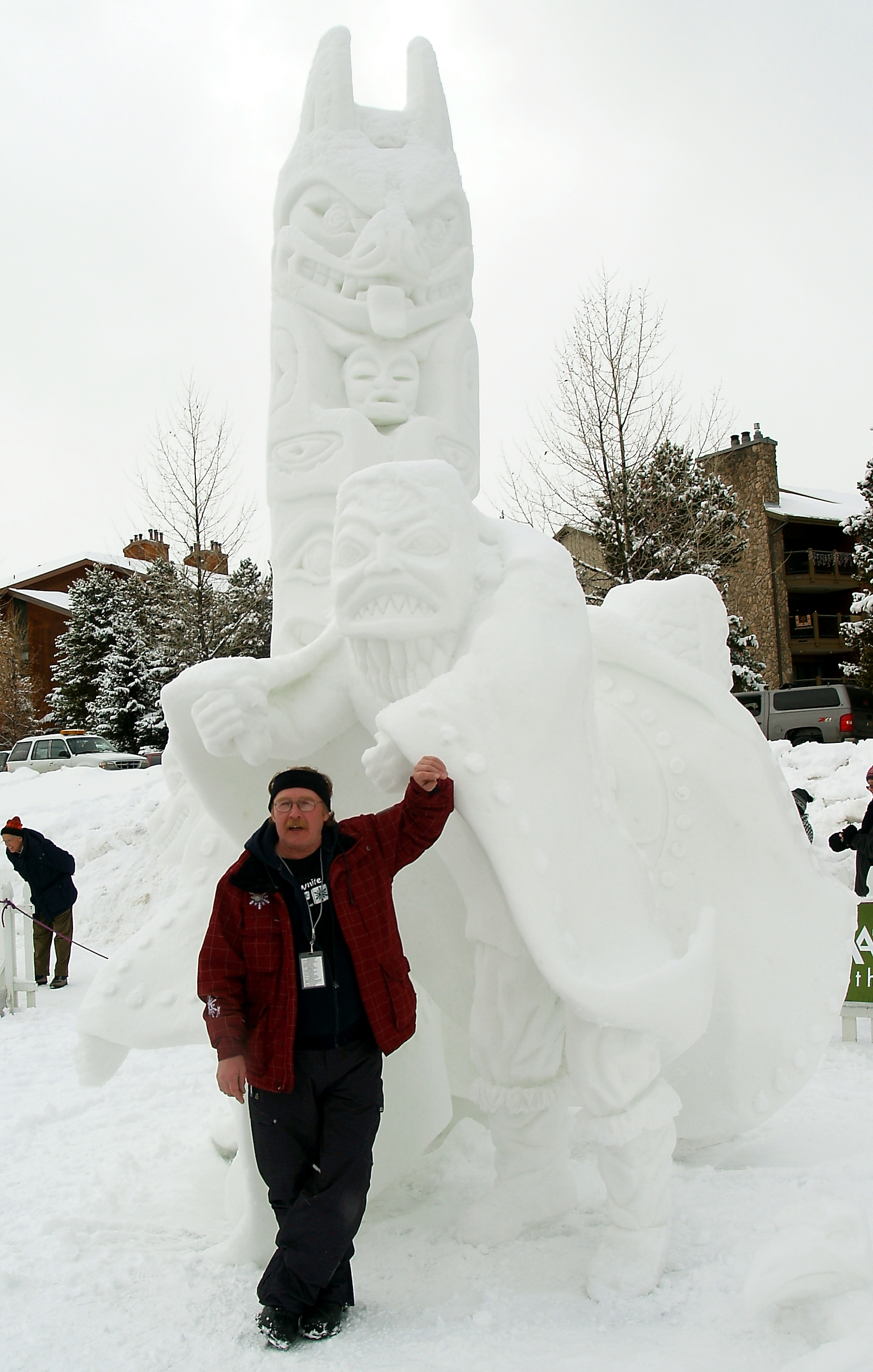 Snow sculptor Michael Lane, member of Team Canada - Yukon, in front of the entry Family Reunion, which won First Place in the 2009 Breckenridge International Snow Sculpture Championships.